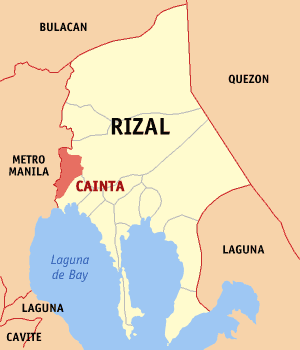 Locator map of Cainta in Rizal, Philippines.